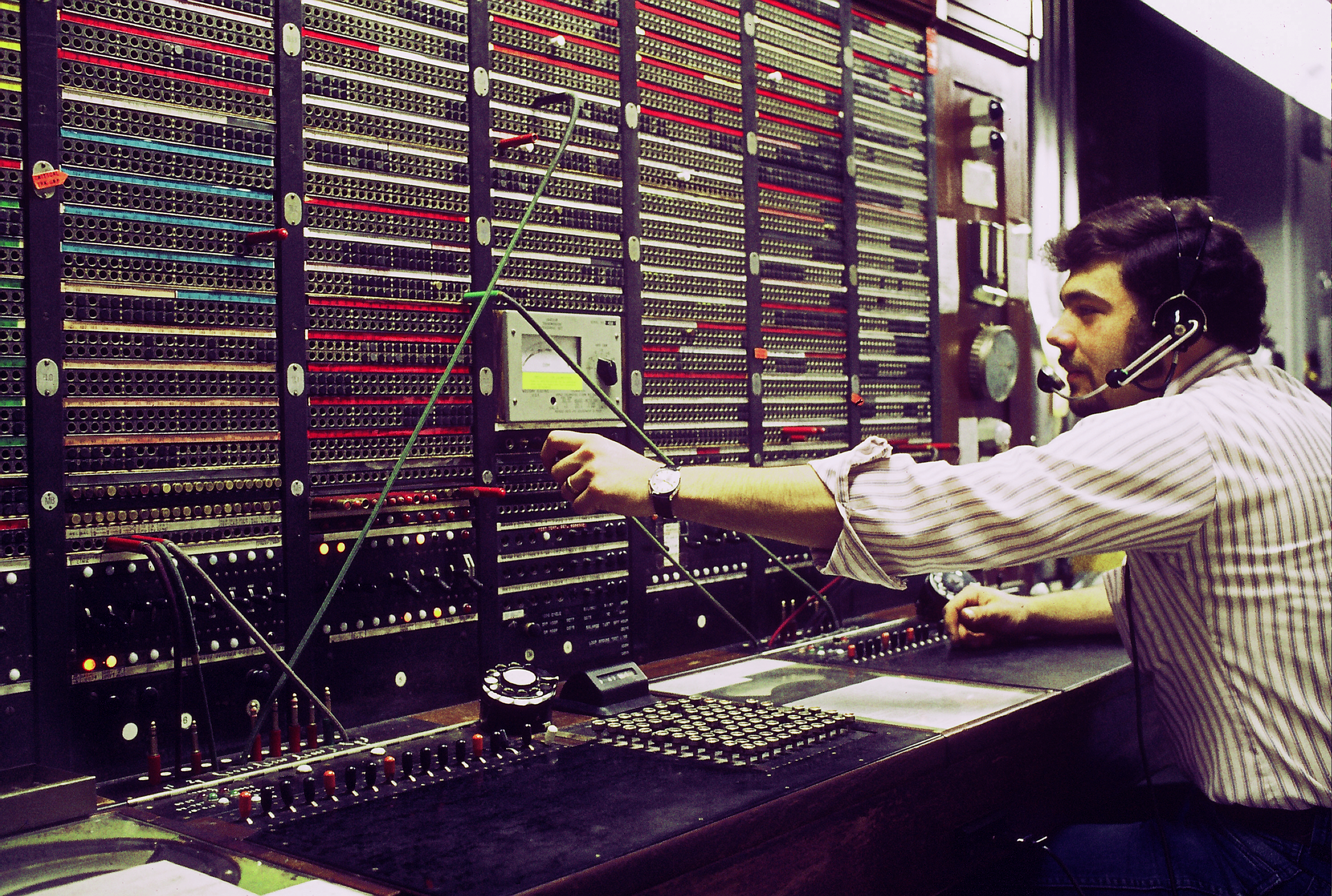 Retouched version of File:Panel_Office_Typical_OGT.jpg by User:Panel_Switchman: - Colour balance adjustment (original has unnaturally strong green hue)